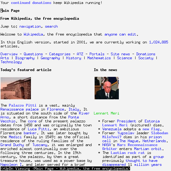 w3m in an xterm, displaying the Wikipedia front page with images.